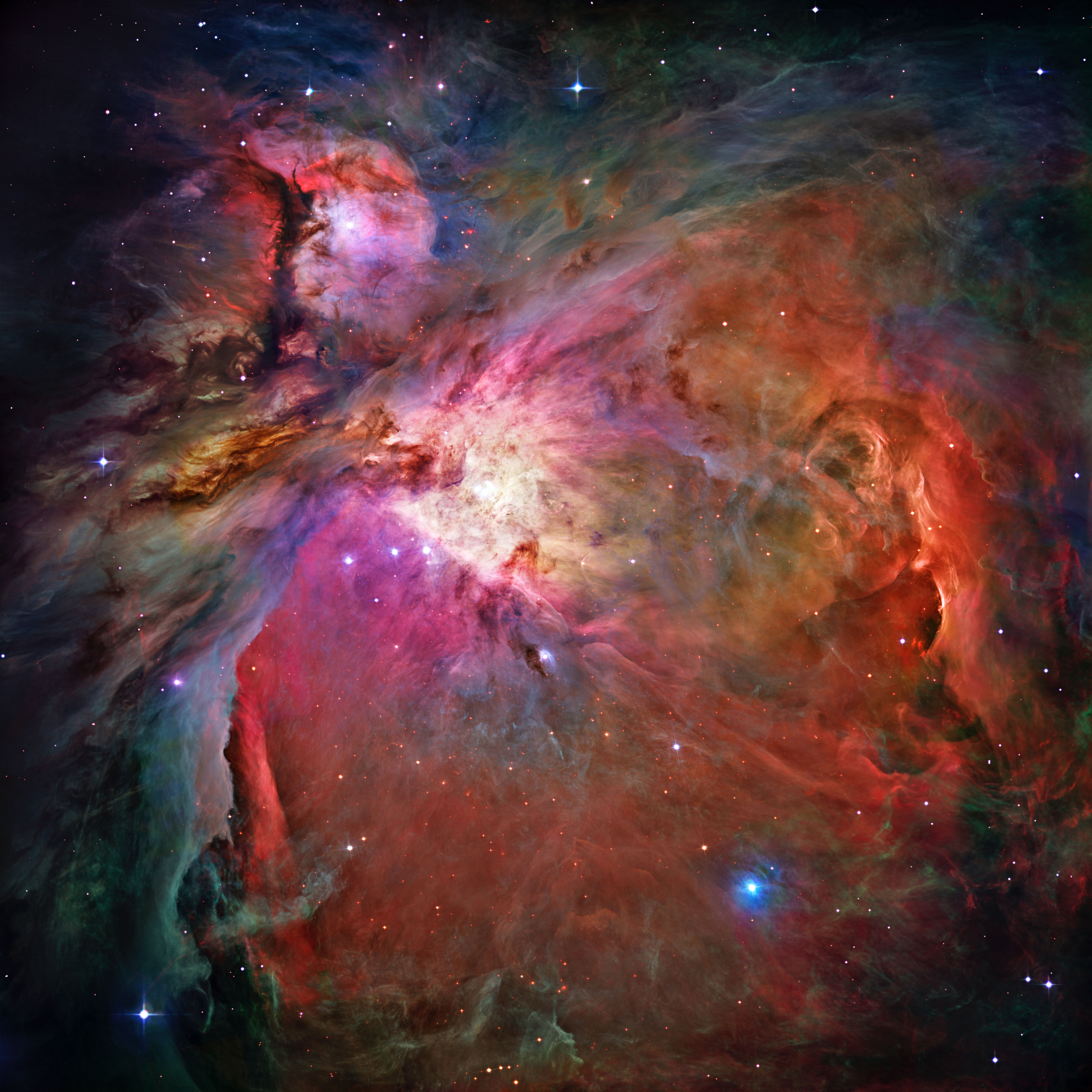 "In one of the most detailed astronomical images ever produced, NASA's Hubble Space Telescope captured an unprecedented look at the Orion Nebula. ... This extensive study took 105 Hubble orbits to complete. All imaging instruments aboard the telescope were used simultaneously to study Orion. The Advanced Camera mosaic covers approximately the apparent angular size of the full moon."